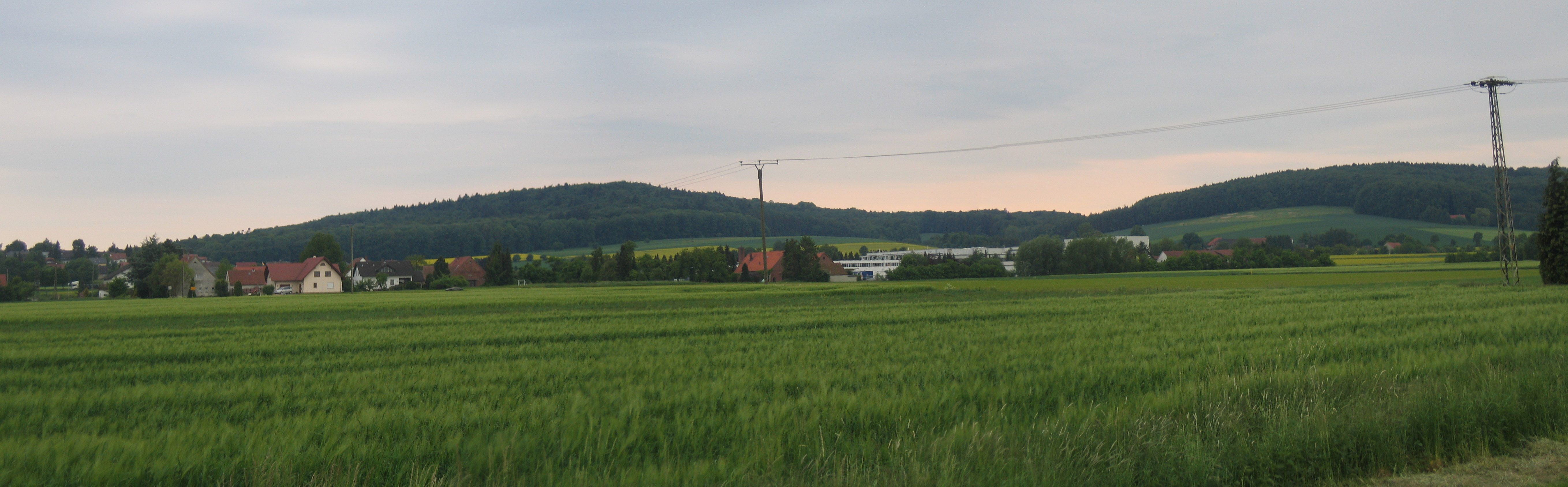 Wiehengebirge mountains in Preußisch Oldendorf, District of Minden-Lübbecke, North Rhine-Westphalia, Germany.